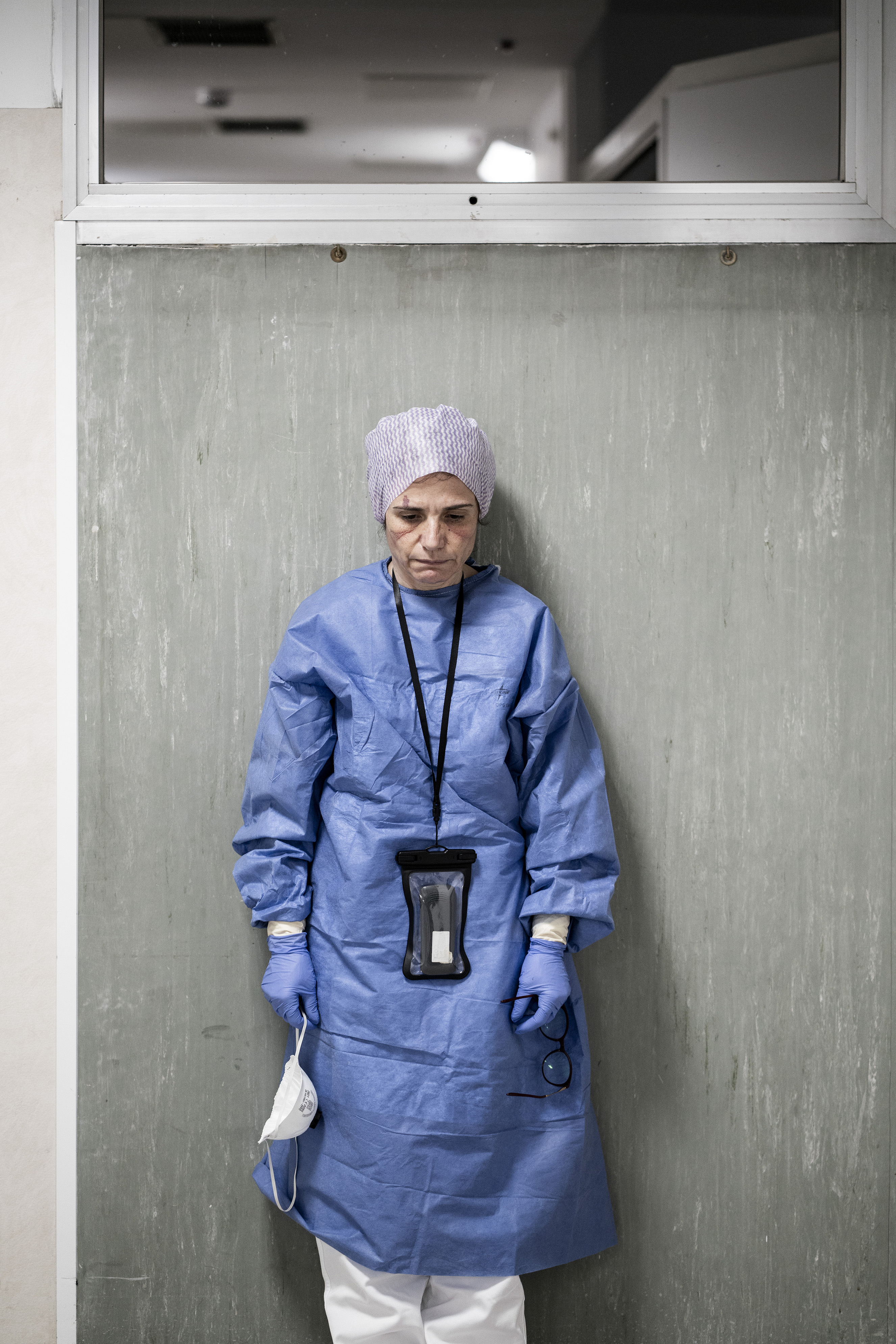 These are the doctors and nurses of the San Salvatore Hospital in Pesaro, Italy, the city of my birth and where I once again reside, which from day one has sadly been at the top of the COVID-19 contagion and death charts. I photographed them at the end of their shifts—twelve hours without a break during their fight in an unequal war. In the quiet moments in front of my camera, these embattled individuals are in a state of total abandon, victims of an exhaustion that eats away at the body and the mind, a breathlessness that renders one disoriented, detached from time and space. They would take off their masks, caps, and gloves in front of my lens, remaining motionless, looking for some sort of normalcy amid the hell they were living.